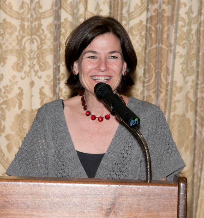 Author and speaker Carol Weston at the New York Society Library in 2009.